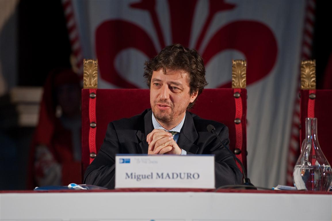 Miguel Maduro at The State of the Union 2013, European University Institute.